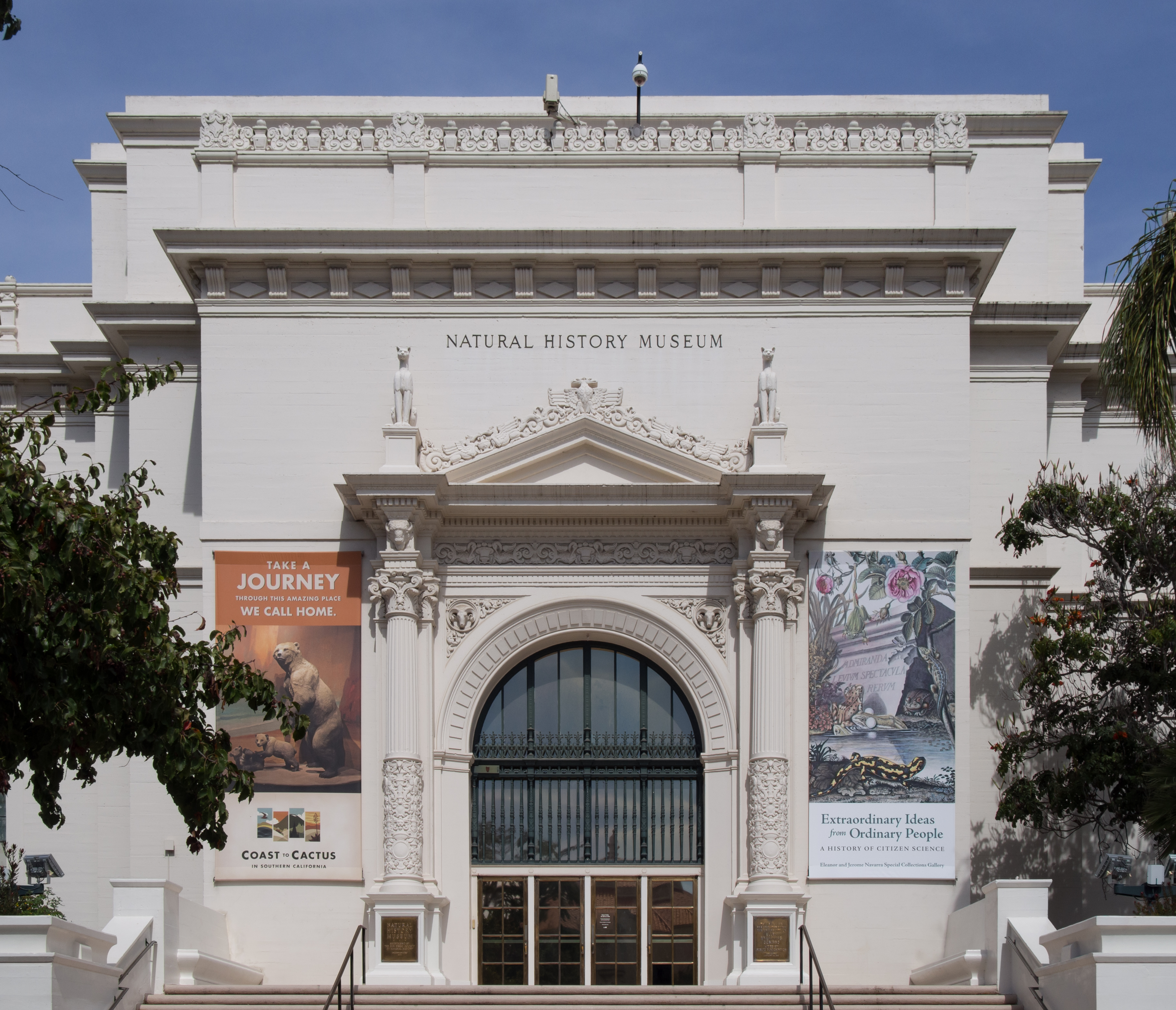 Exterior of the San Diego Natural History Museum. Taken during the WikiConference North America 2016 Culture Crawl.